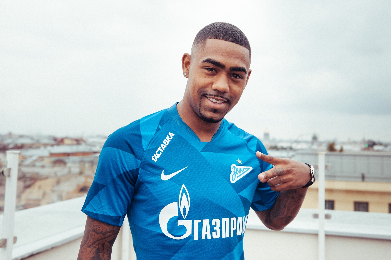 Malcom in Saint-Petersburg, 2 August 2019